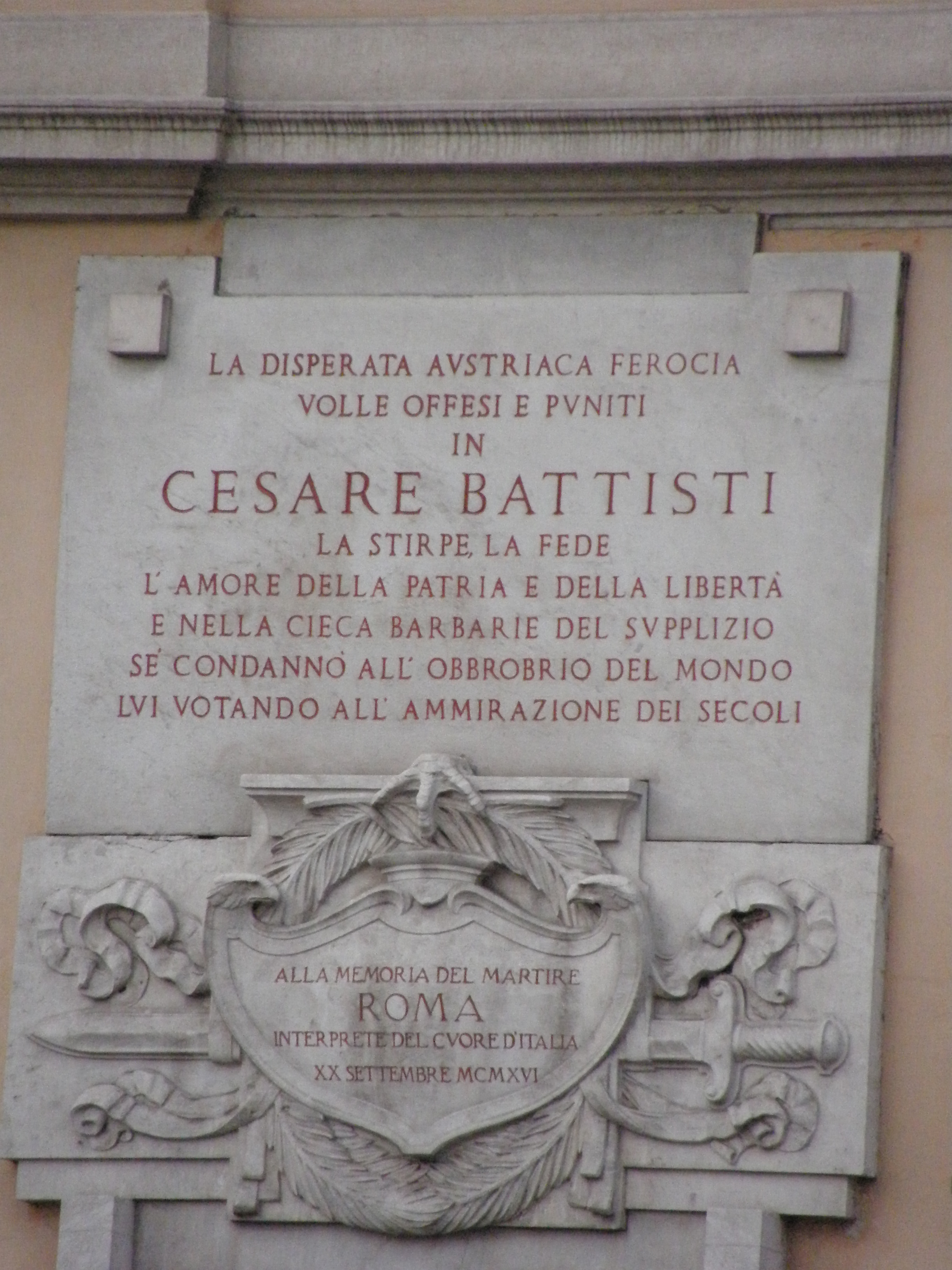 Rome, Italy - Via Cesare Battisti su Piazza Venezia - Commemorative plaque devoted to Cesare Battisti